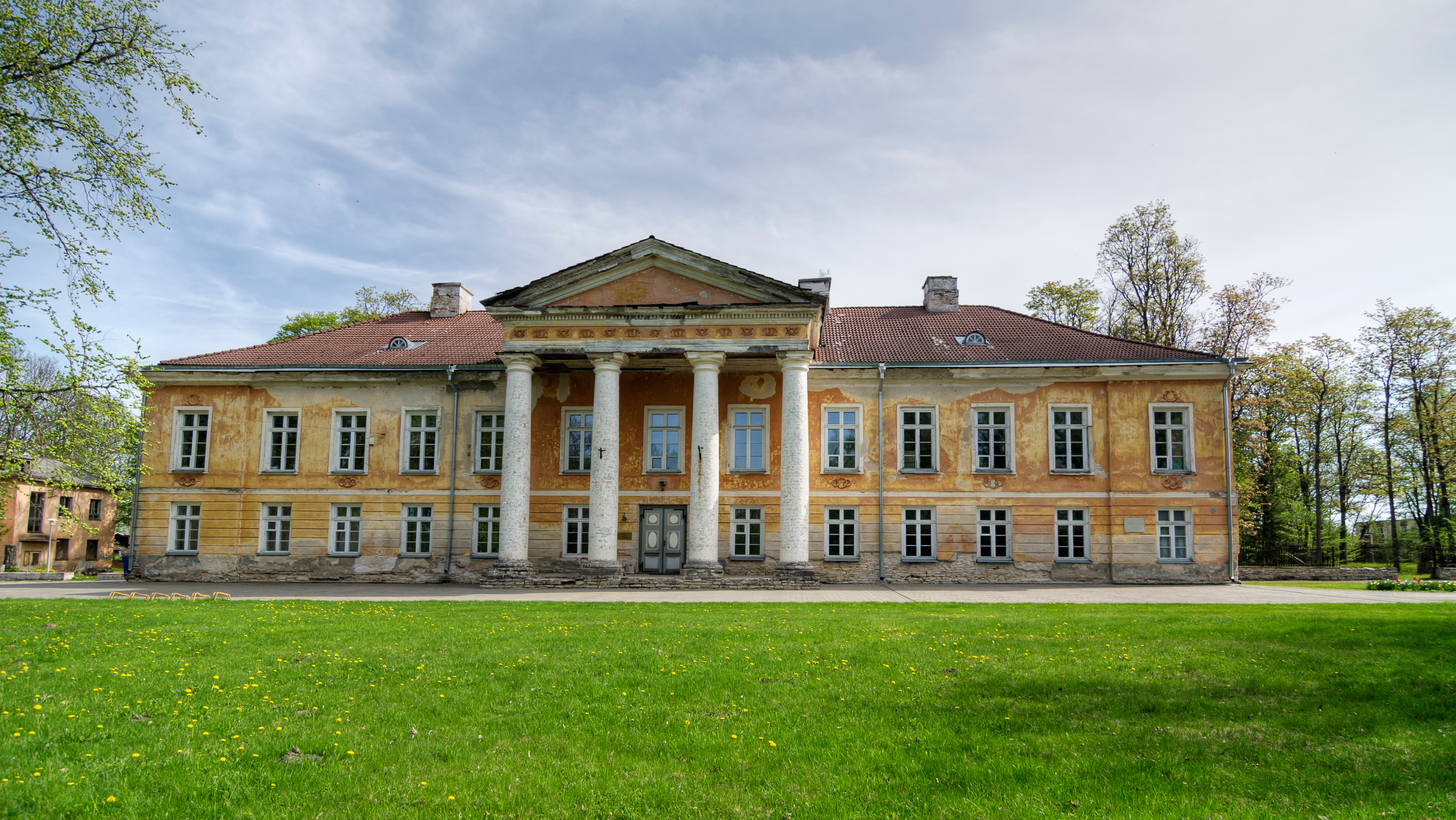 Front side of Aruküla Manor house